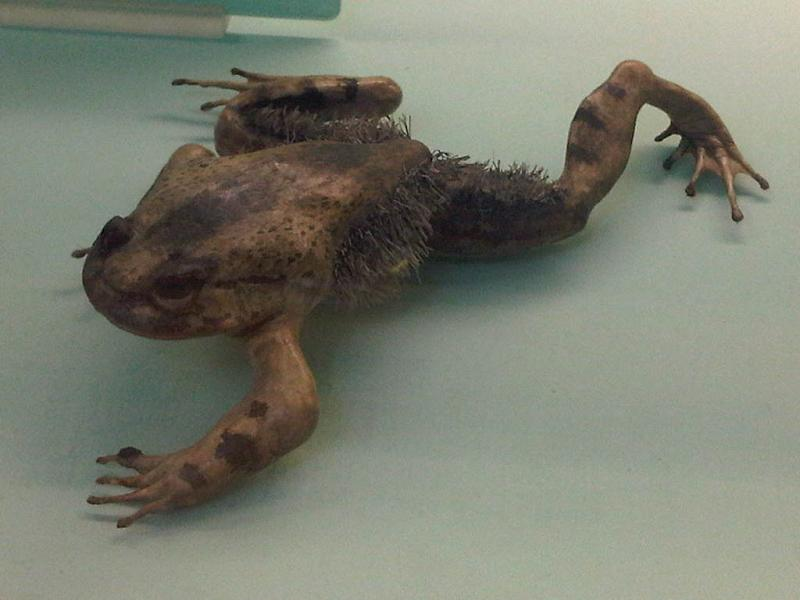 Taxidermied male hairy frog (Trichobatrachus robustus) at the Natural History Museum in London, England.